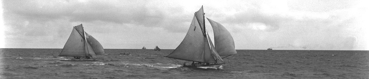 This is a derivative print of Port Phillip Bay ,Melbourne, taken in 1920 and created from a work by a relative whose photographic work I inherited. It was created more than 75 years ago.